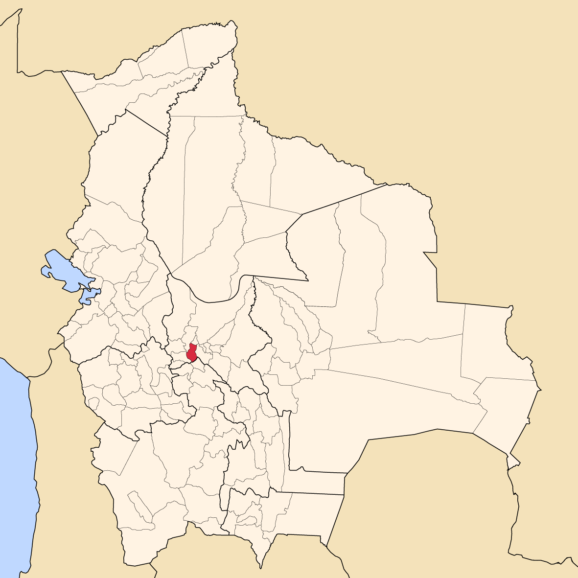 Map of Bolivia showing Capinota province